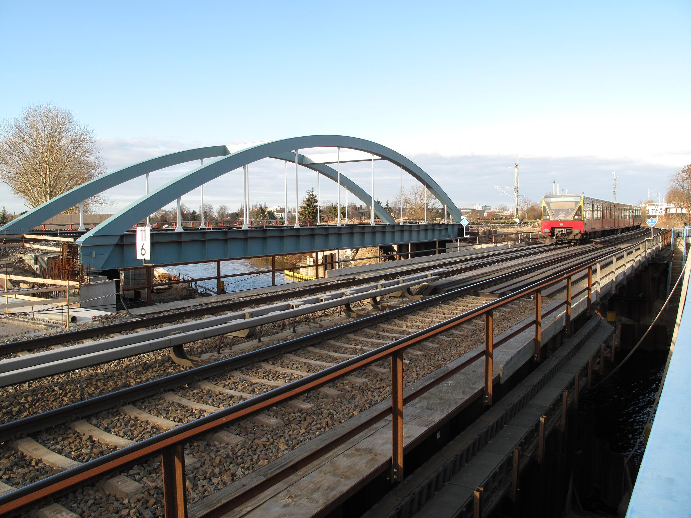 In the background the new railway bridge of the Görlitzer Bahn in Berlin-Adlershof crossing the Teltowkanal (canal). The steel arch bridge was installed in 2009 and will be opened in 2010. In the foregound the S-Bahn-bridge during the construction works. For the S-Bahn there will be installed another steel arch bridge in 2010.